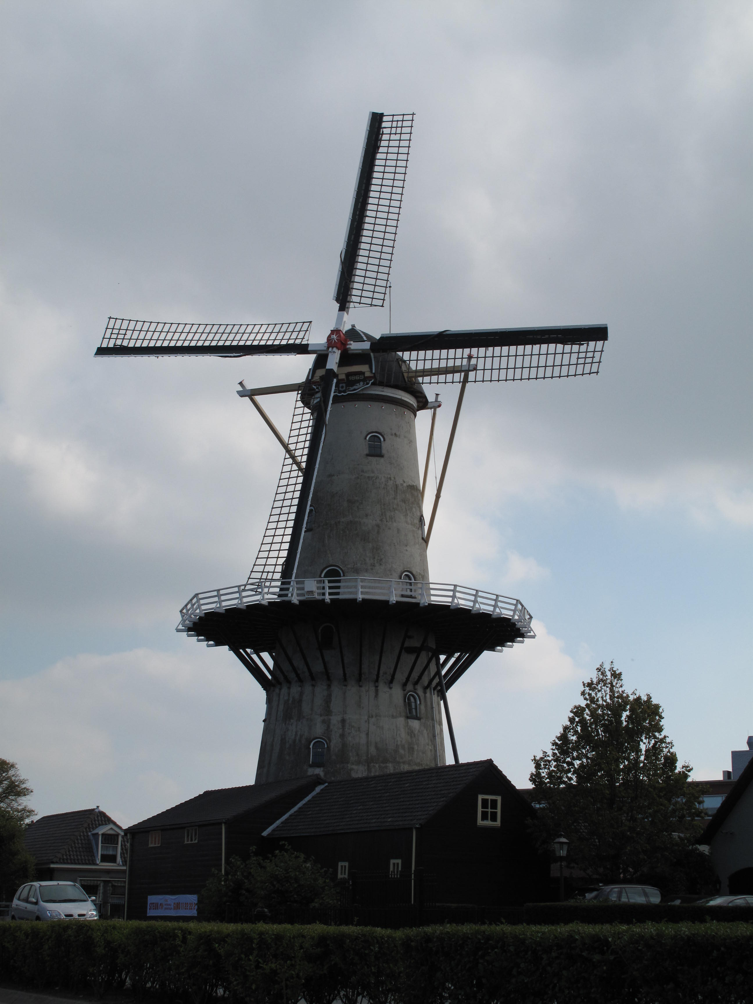 Wateringen, windmill: molen de Windlust